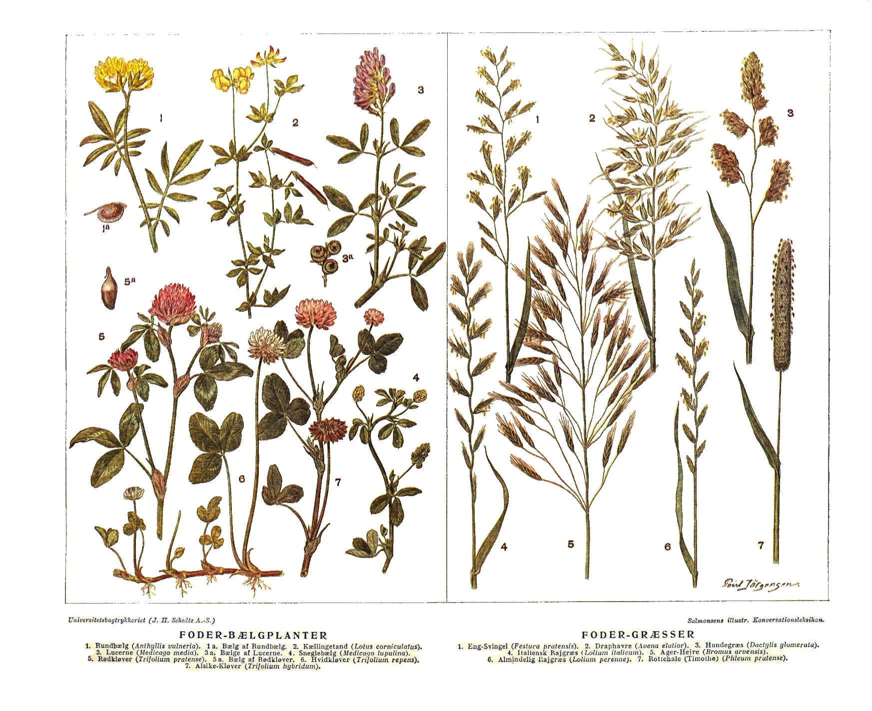 LEGUME FODDER 1. Common kidneyvetch (Anthyllis vulnaria [=Anthyllis vulneraria]). 1a. Seedpod of common kidneyvetch. 2. Bird's-foot trefoil (Lotus corniculatus). 3. Lucerne/alfalfa (Medicago media [=Medicago sativa]). 3 a. Seedpod of lucerne/alfalfa. 4. Black medic (Medicago lupulina). 5. Red clover (Trifolium pratense). 5 a. Seedpod of red clover. 6. White clover (Trifolium repens). 7. Alsike clover (Trifolium hybridum). GRASS FODDER 1. Meadow fescue (Festuca pratensis). 2. False oat-grass (Avena elatior [=Arrhenatherum elatius]). 3. Orchard grass (Dactylis glomerata). 4. Italian ryegrass (Lolium italicum [=Lolium multiflorum]). 5. Field brome (Bromus arvensis). 6. Perennial ryegrass (Lolium perenne). 7. Timothy grass (Phleum pratense).